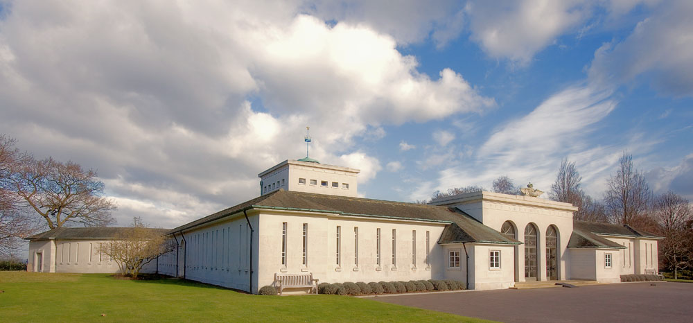 Commonwealth Air Forces memorial Coopers Hill overlooking Runnymede